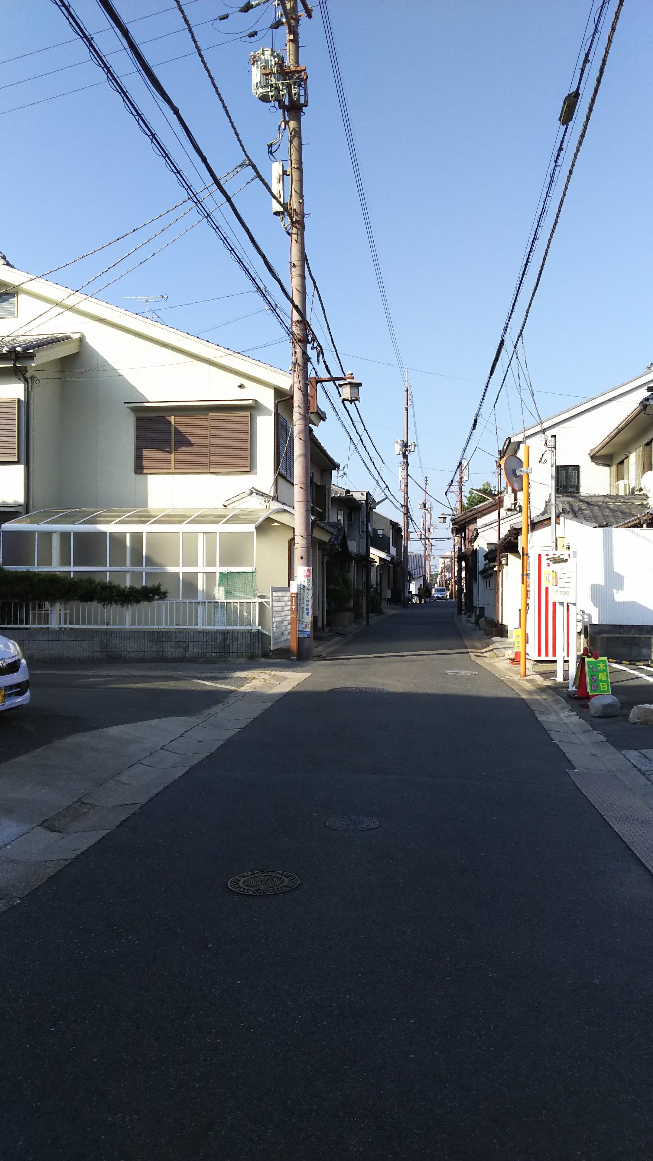 Kawanokamichō in Nara City, Nara Prefecture, Japan.